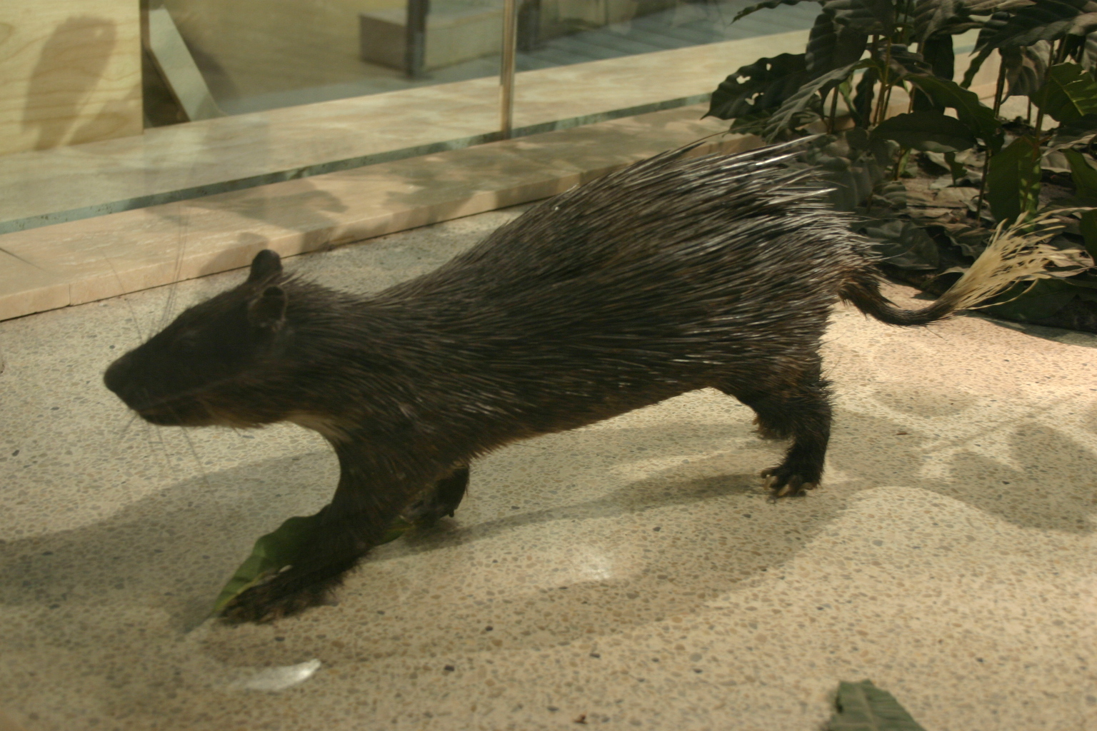 African Brush-tailed Porcupine (Atherurus africanus)